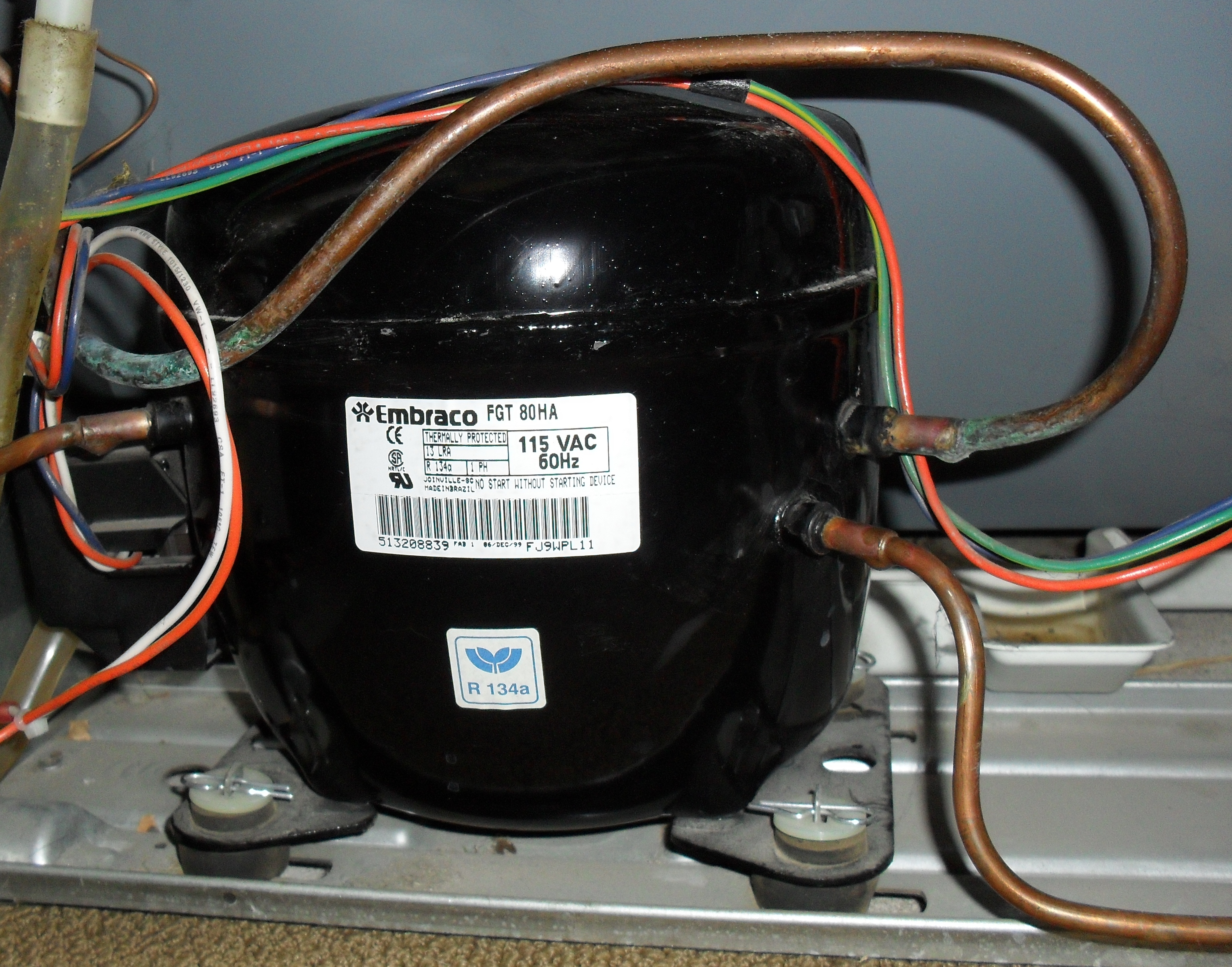 Brazilian-made Embraco type FGT 80HA compressor fitted in a domestic refrigerator.